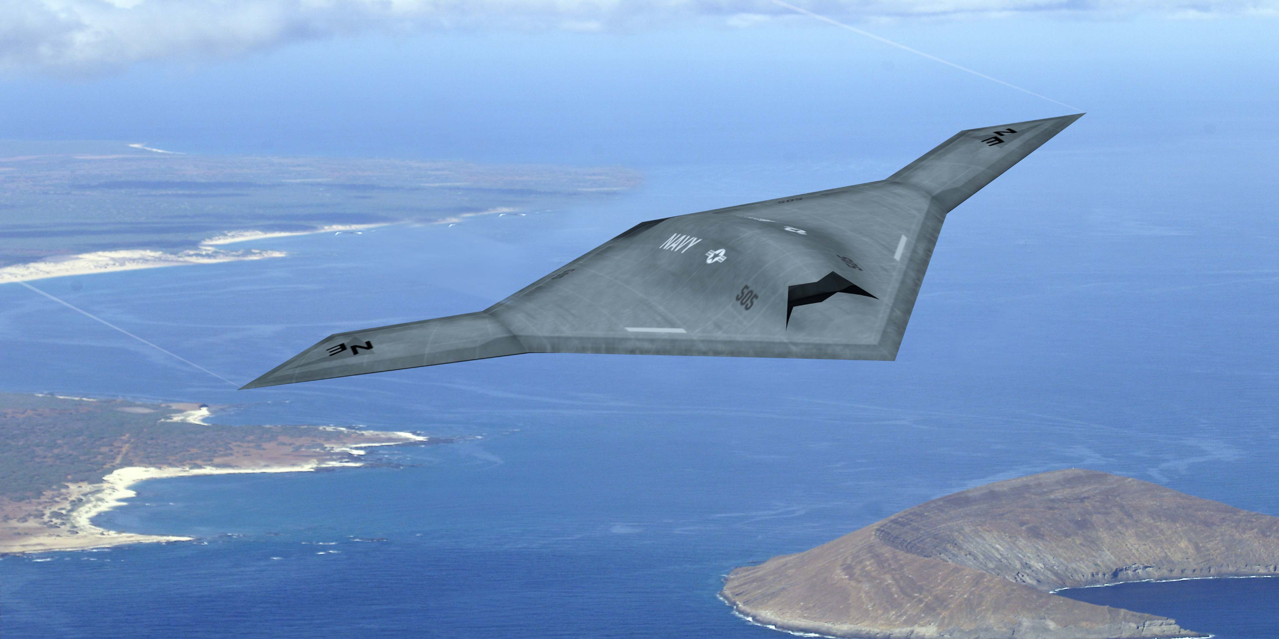 Rendering of the X-47B drone over the coastline